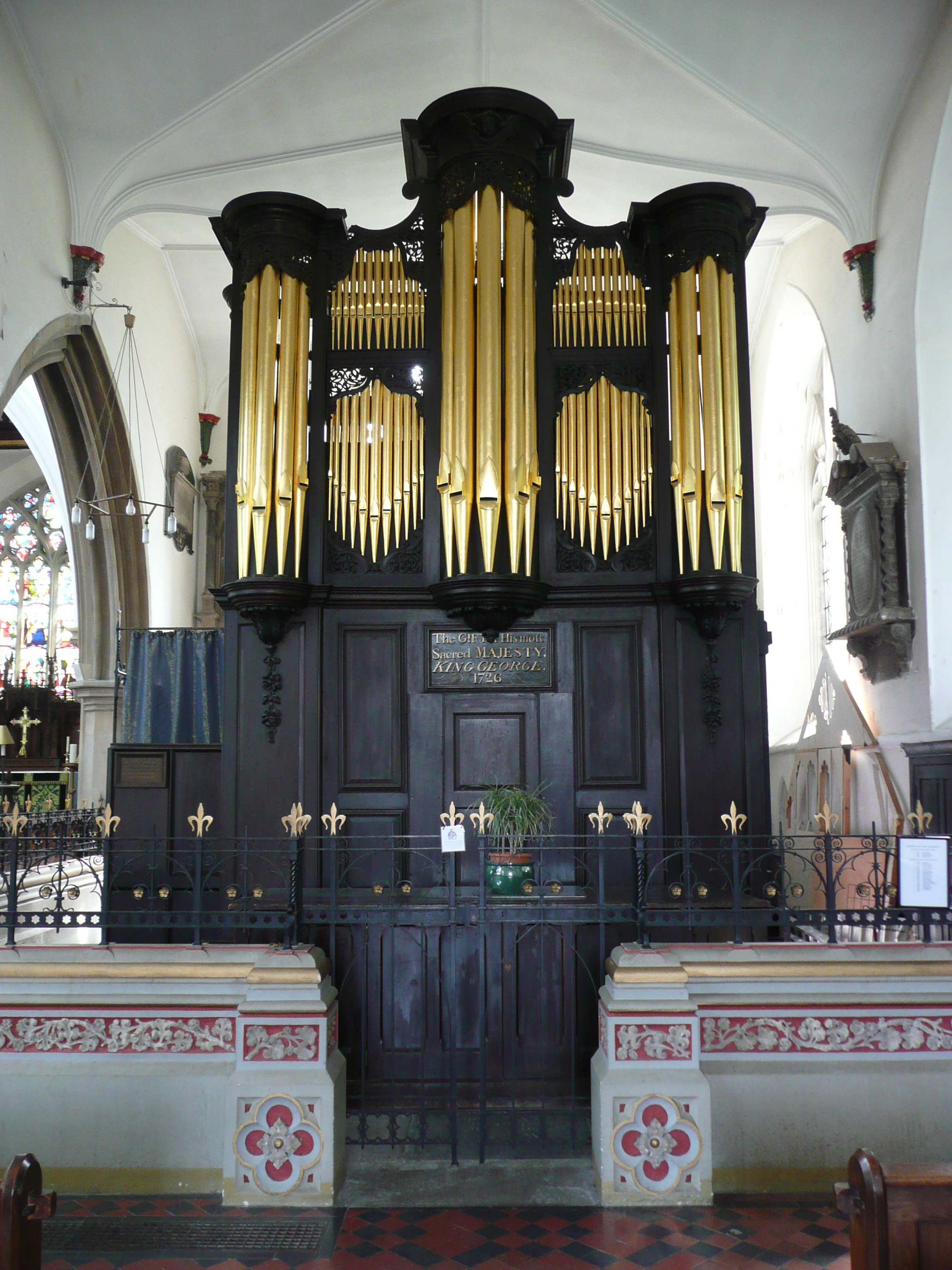 The organ played by Handel that resides in St. Mary the Virgin, Wotton-under-Edge